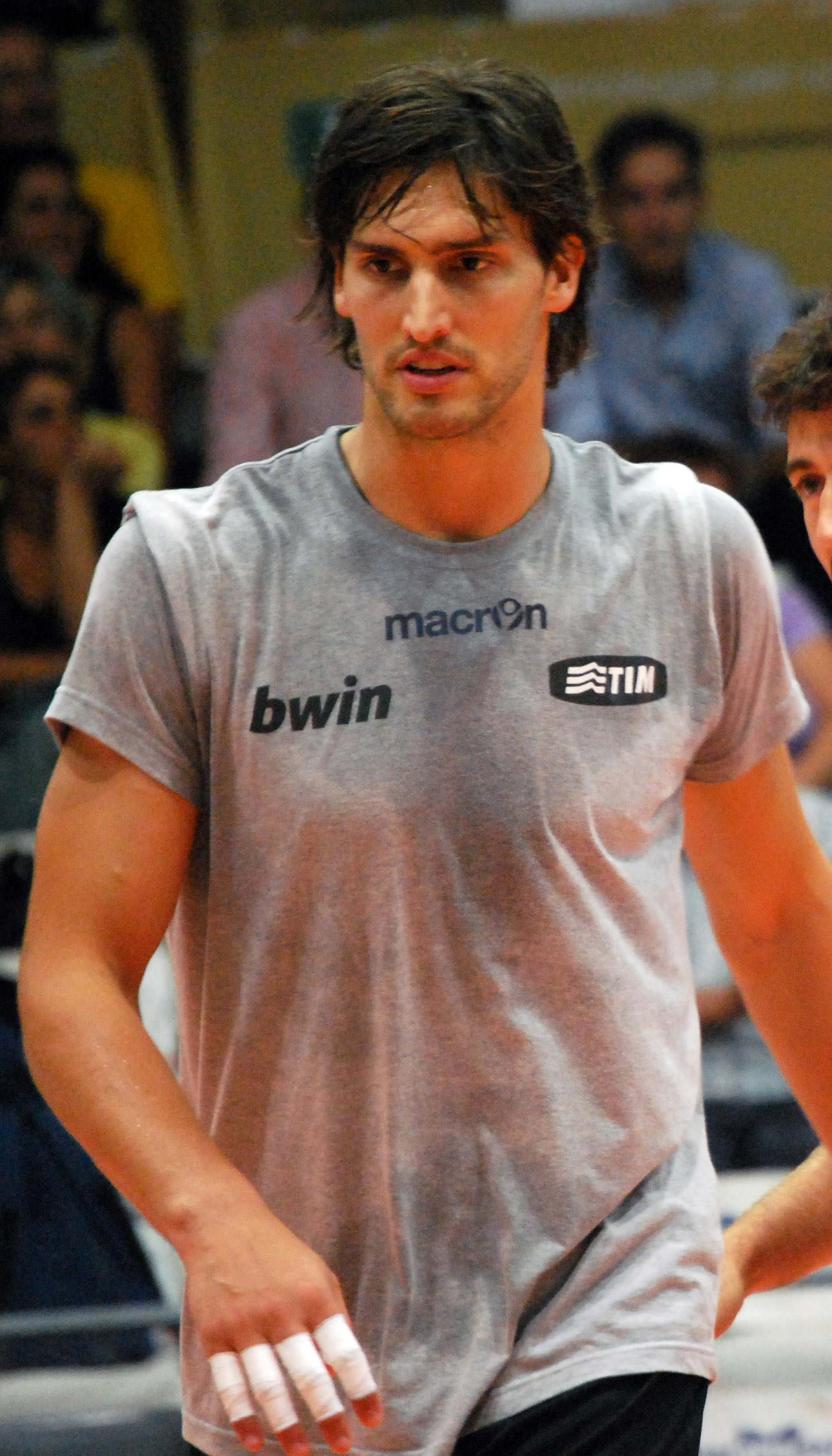 I took this pic during a volleyball match in Piacenza